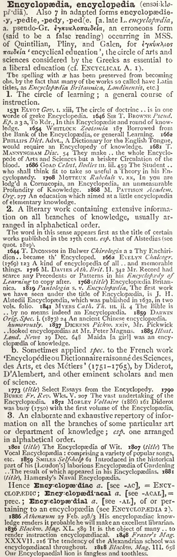 The entry 'encyclopedia' from the New English Dictionary (later known as the first edition of the Oxford English Dictionary).